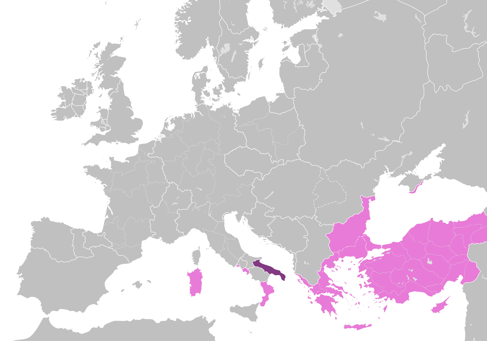 Map of the Longobardia Theme within the Byzantine Empire in 1000 AD. Based on